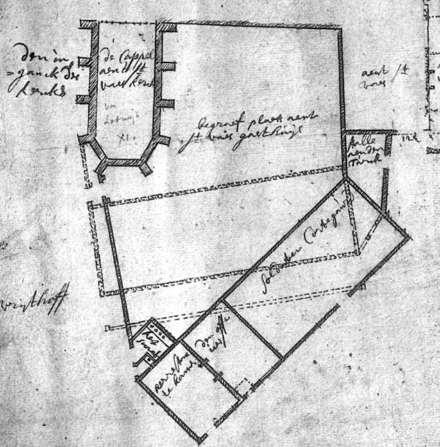 Maastricht, the Netherlands. Detail of a building plan of 1733 for a new Main Guardhouse (Hoofdwacht) next to the the Royal Chapel (Koningskapel) on Vrijthof square.